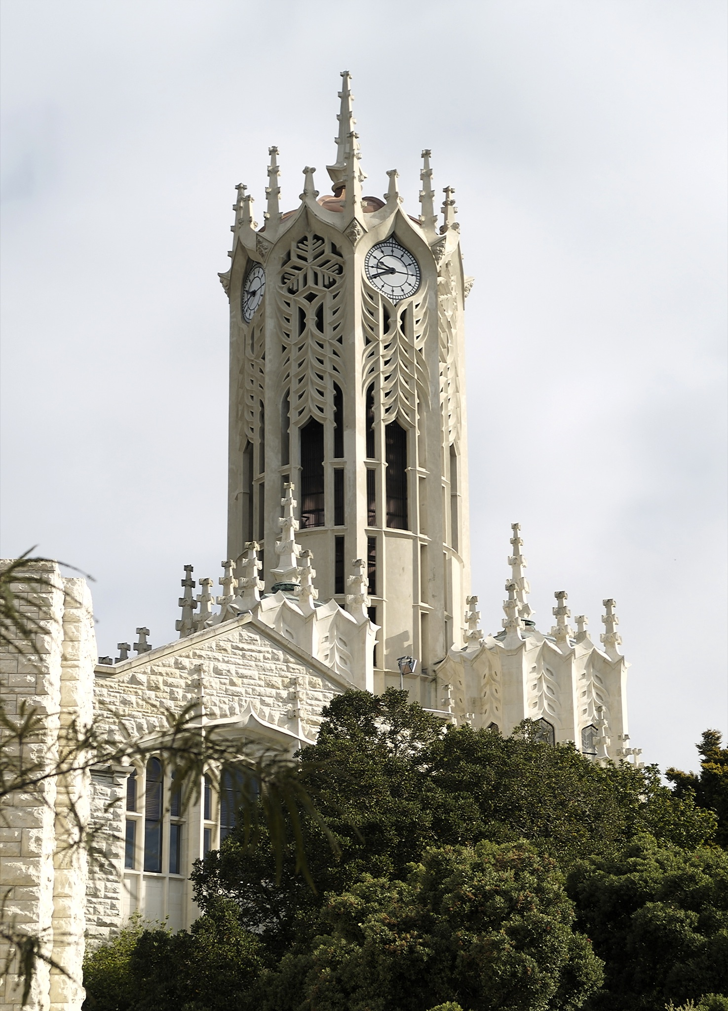 Clock Tower building, University of Auckland